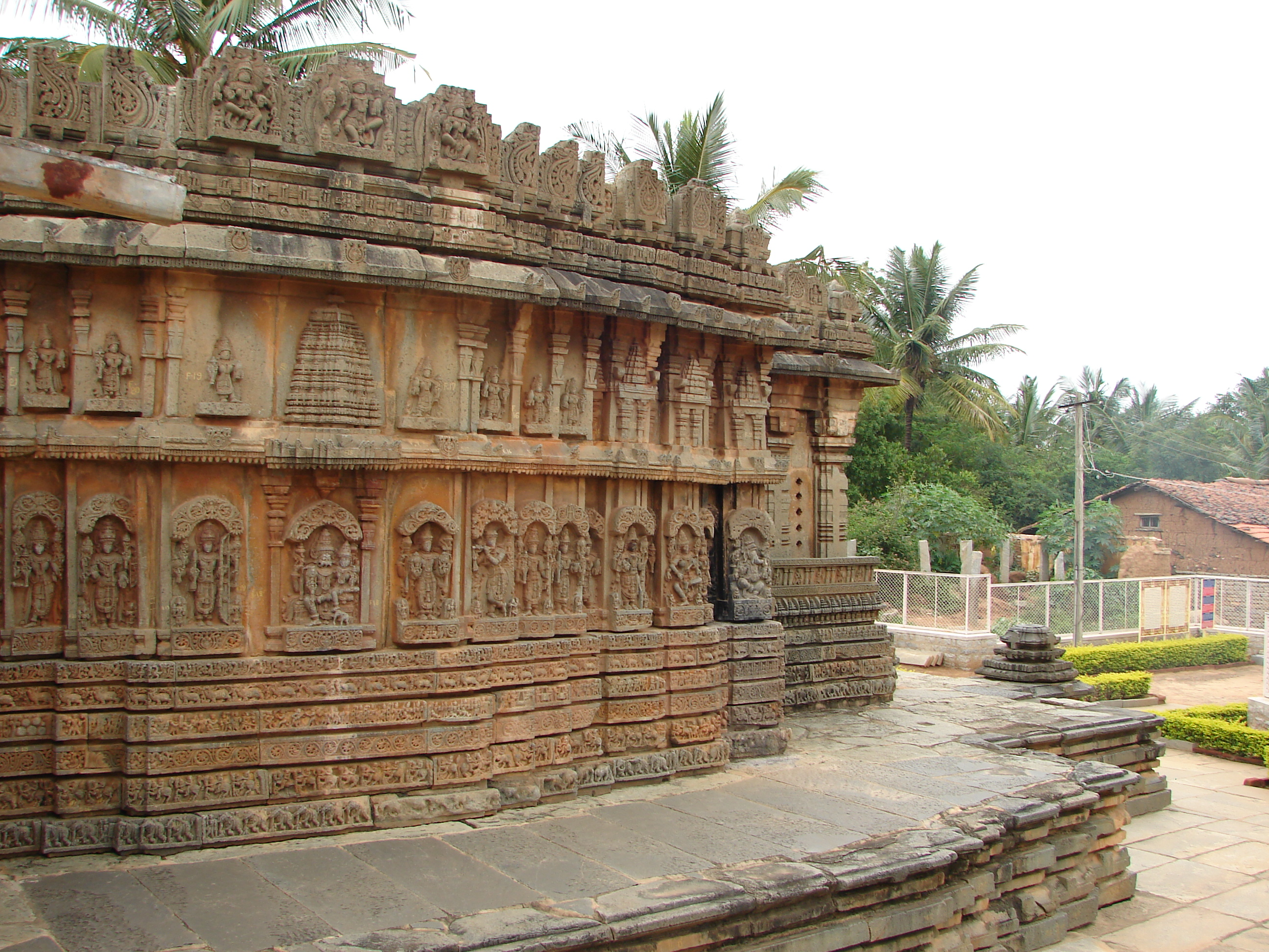 This photograph was taken by me at Aralaguppe in Tumkur district, Karnataka state, India. The Chennakeshava temple, a fine example of Hoysala architecture, was built during the reign of Hoysala King Vira Someshwara in 1250 AD.